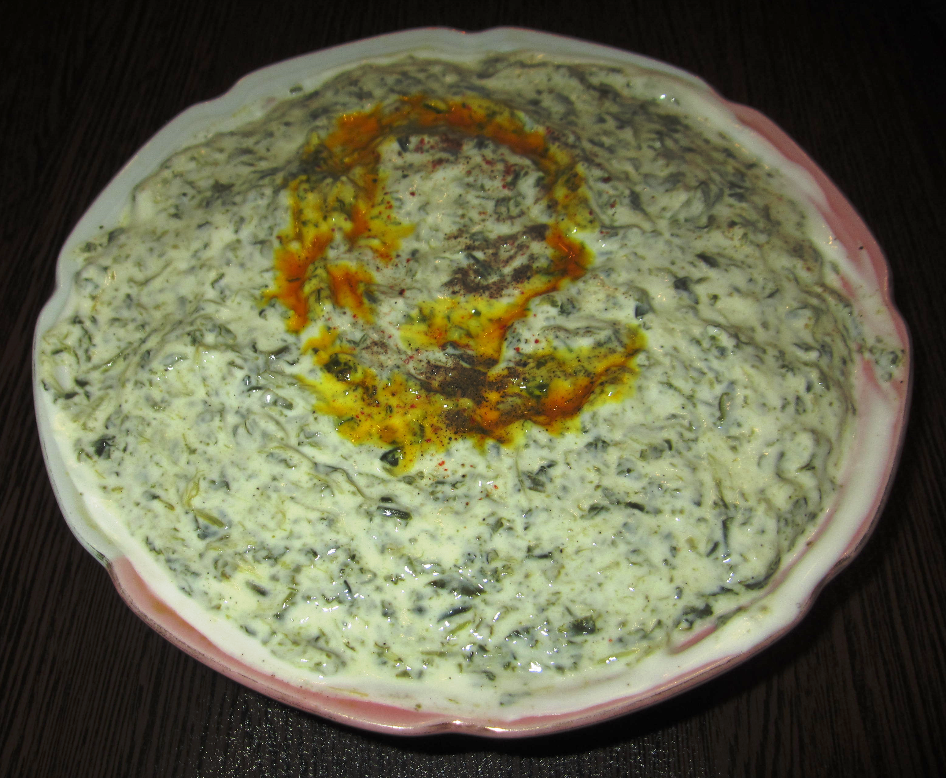 Bouranee, an Iranian side dish, made from yogurt and spinach.